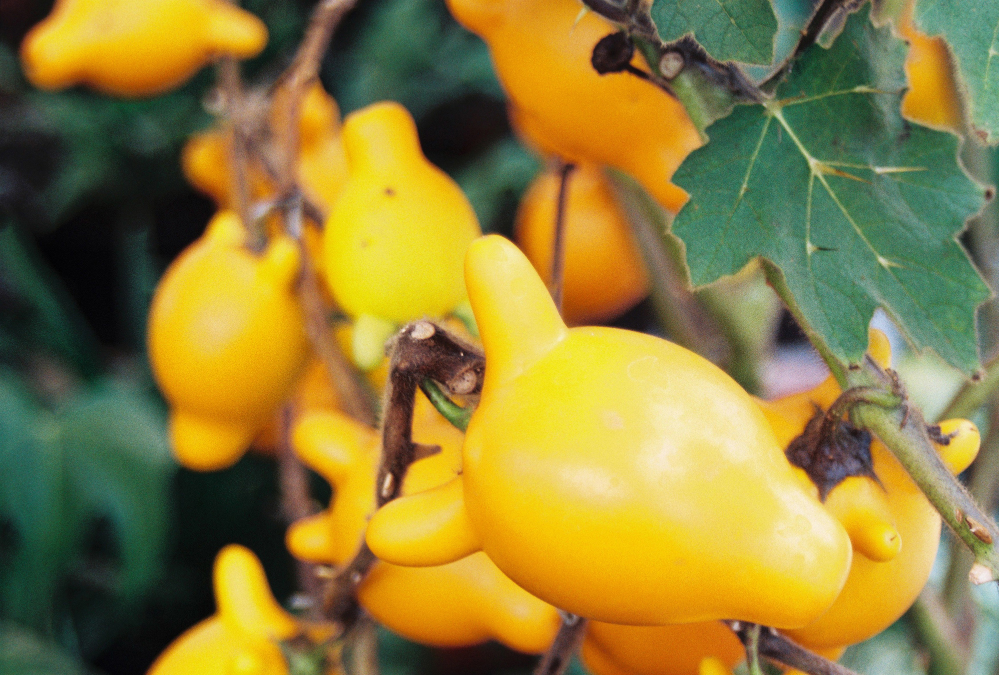 A photography of Solanum mammosum-Fruits from Jakarta Floral Exhibition